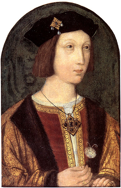 Depicted person: Arthur Tudor (1486-1502), Prince of Wales was the first son of King Henry VII of England and Elizabeth of York. This portrait is regarded as the only surviving contemporary portrait of the sitter.